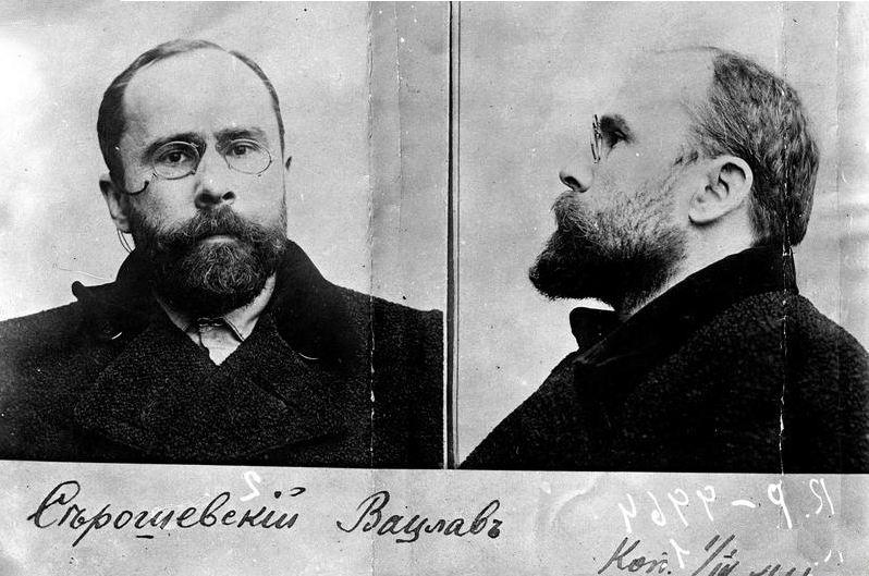 Wacław Sieroszewski (1858-1945) - Polish writer, Polish Socialist Party activist, and soldier in the World War I-era Polish Legions (decorated with the Virtuti Militari). For activities subversive of the Russian Empire, he had spent many years in Siberian exile.